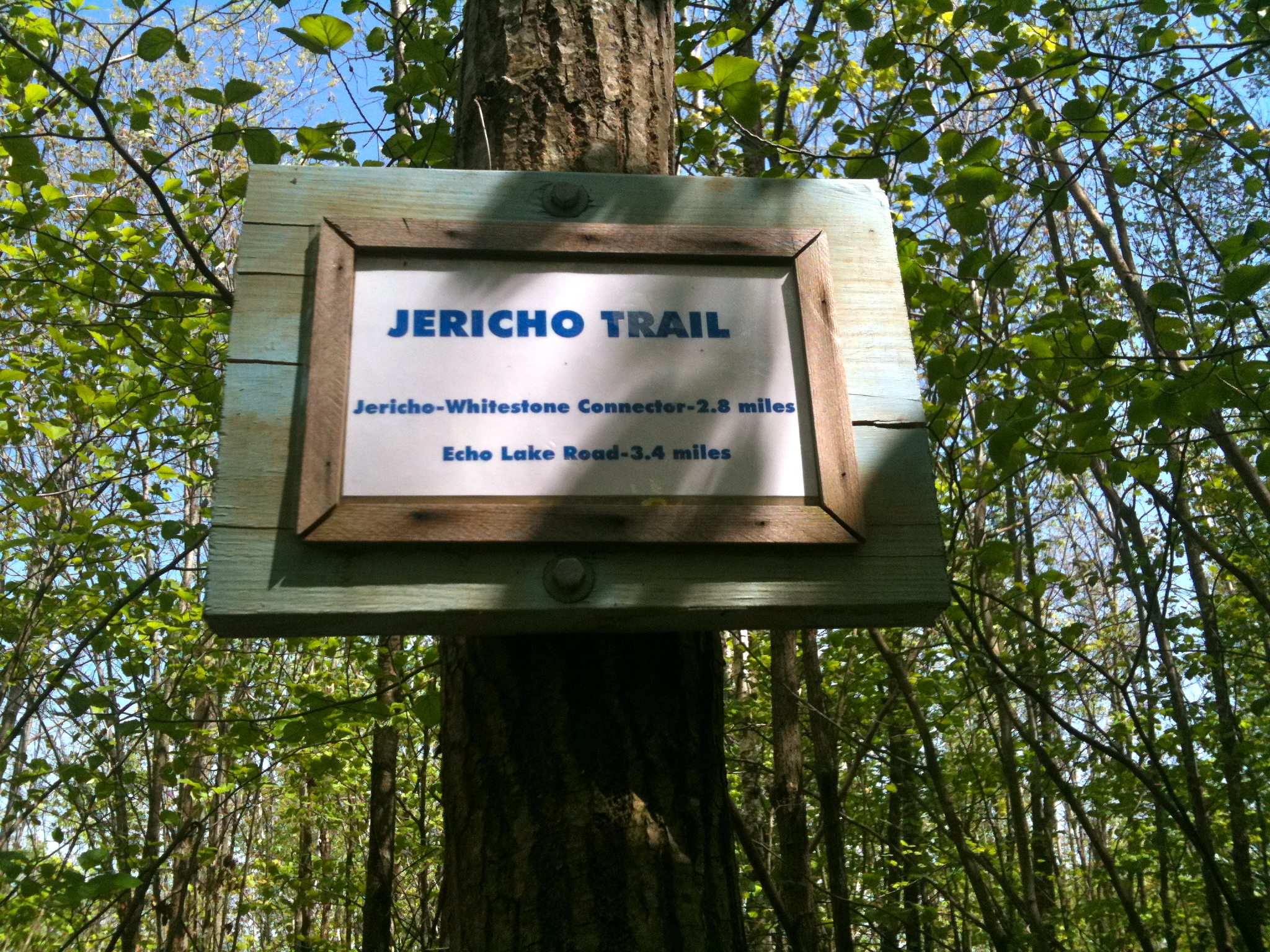 Jericho Blue-Blazed Trail. Jericho Trail head sign at junction with Mattatuck Trail.